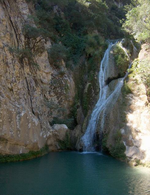 Kadis waterfall in Polilimno. Messinia, Greece